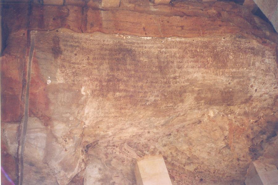 Image by LRBurdak